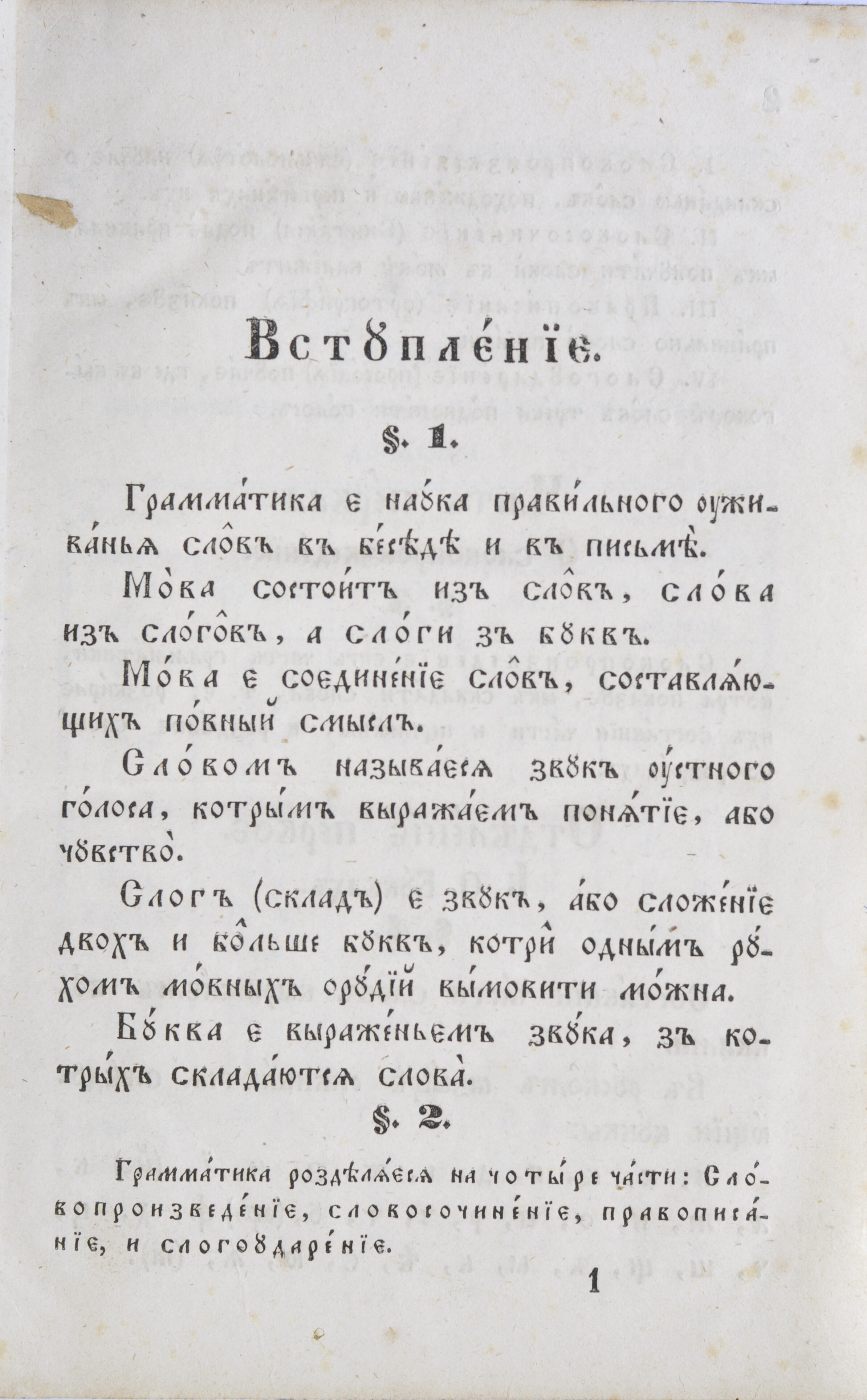 Y.Golovatsky. Rusian Grammar. Lviv, 1849. page 1. From Ivan Franko personal Library